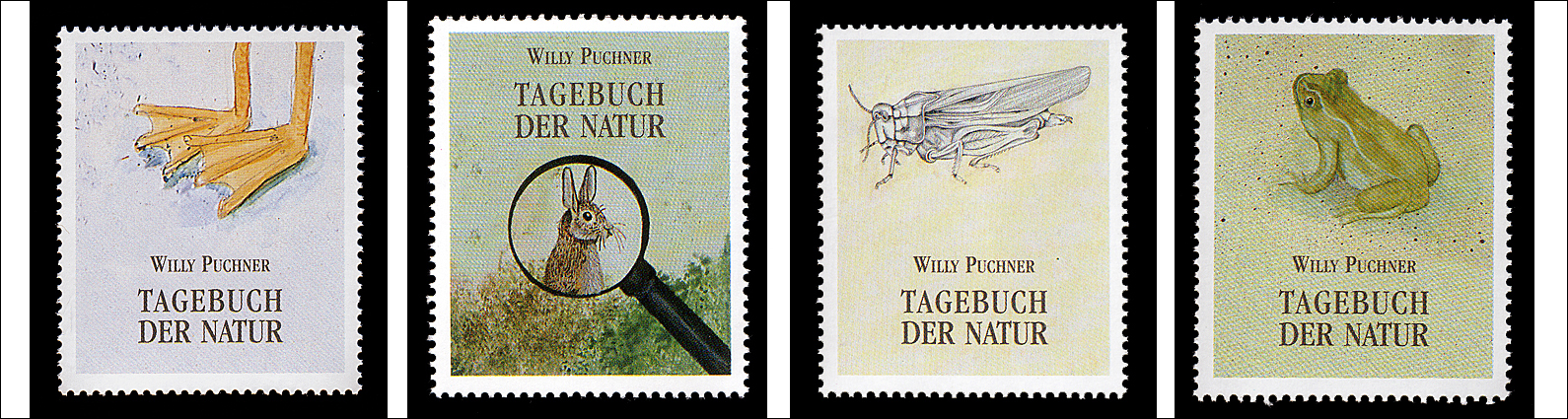 4 stamps out of the book Tagebuch der Natur (diary of nature) Author: Willy Puchner The stamps are made in 2001 Willy Puchner allows to use the stamps for publishing